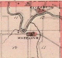 Early county map showing Elizabethtown from 1874.